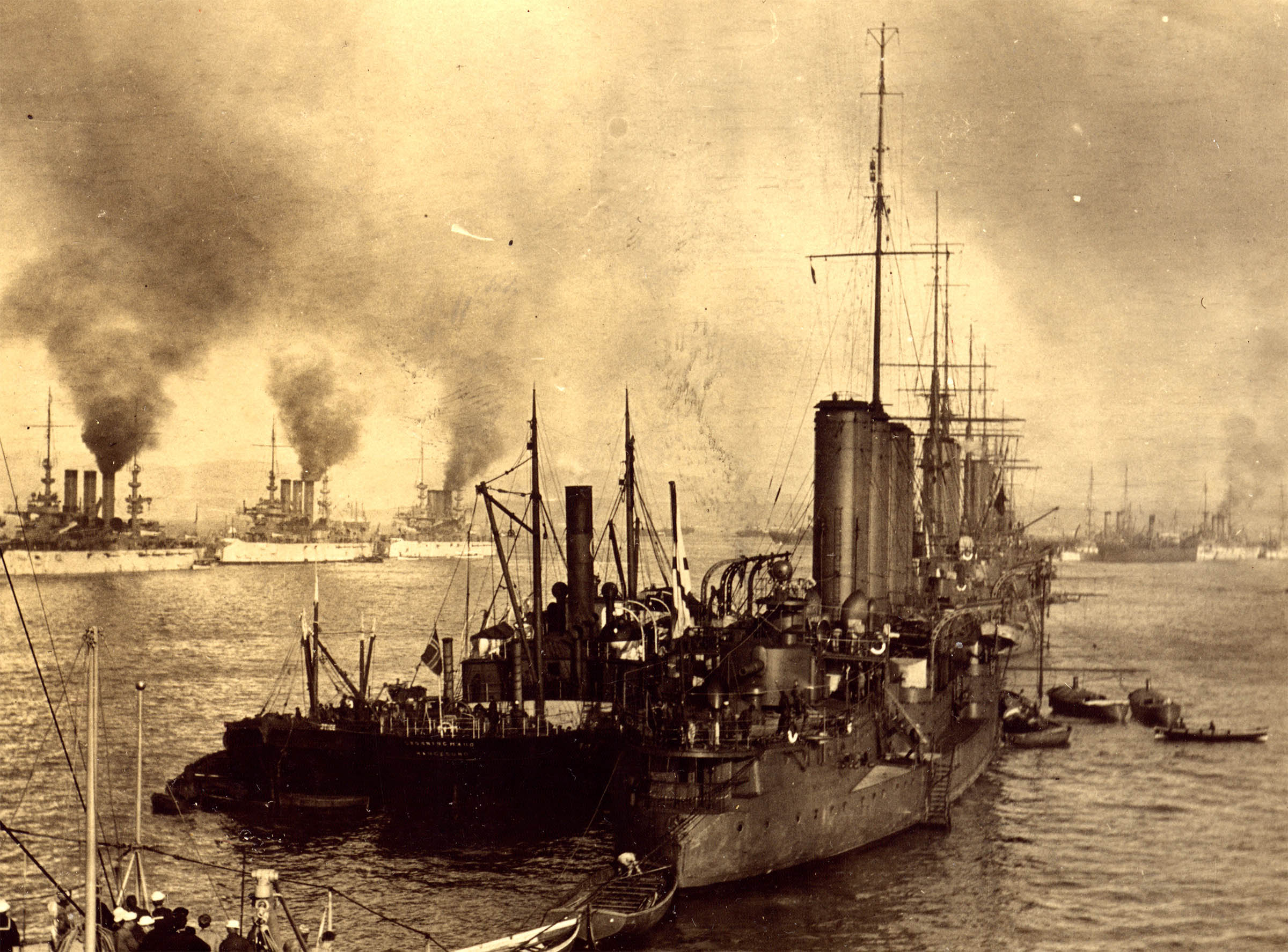 Imperial Russian armoured cruiser Admiral Makarov and ships of Baltic fleet at Gibraltar, Feburuary 1909.